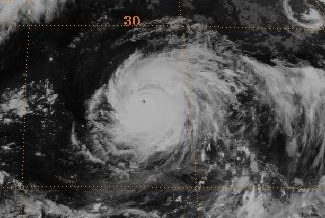 Satellite image of Typhoon Kent near peak intensity on August 12, 1992